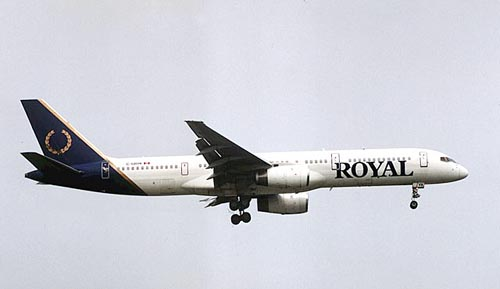 Royal Airlines Boeing 757-200